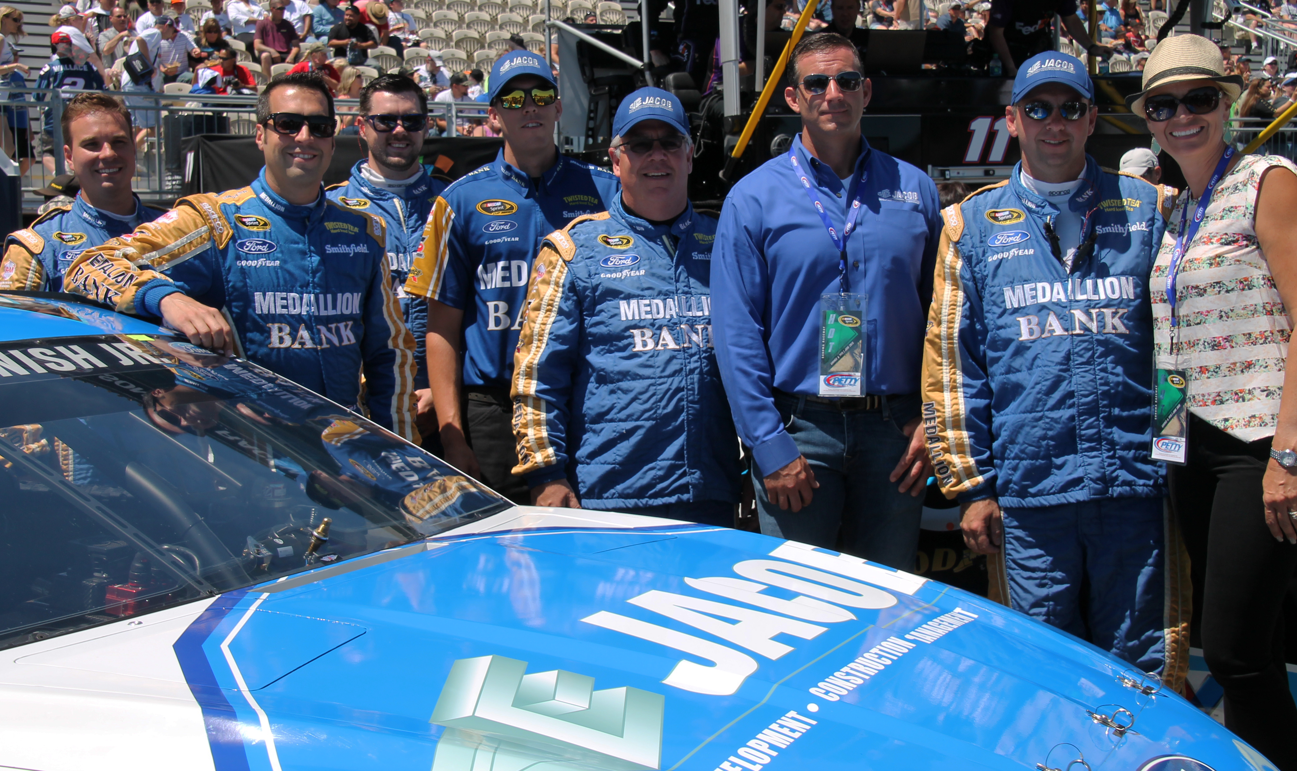 Sam Hornish, Jr. and his team prior to the start of the 2015 Toyota/Save Mart 350